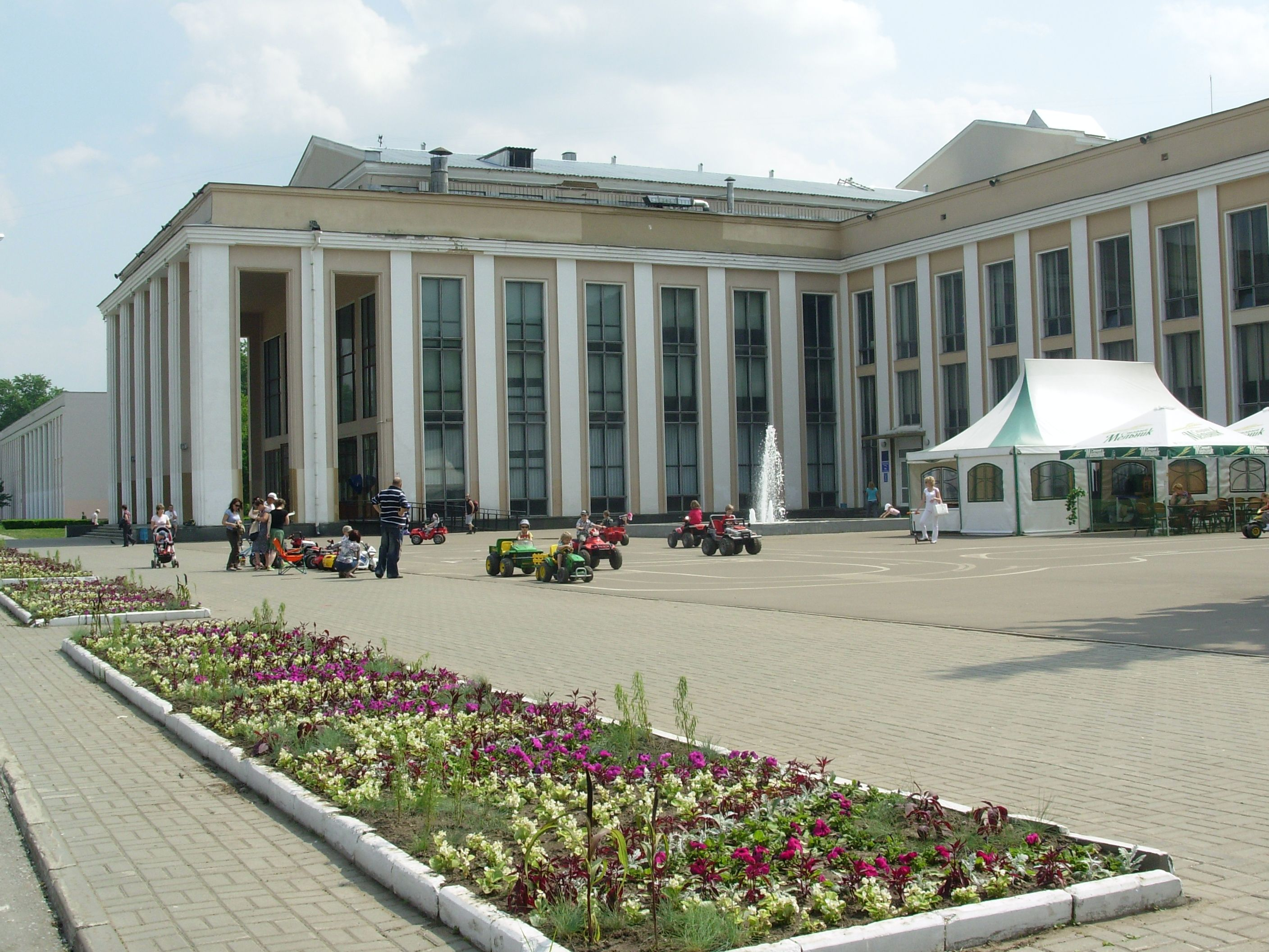 street